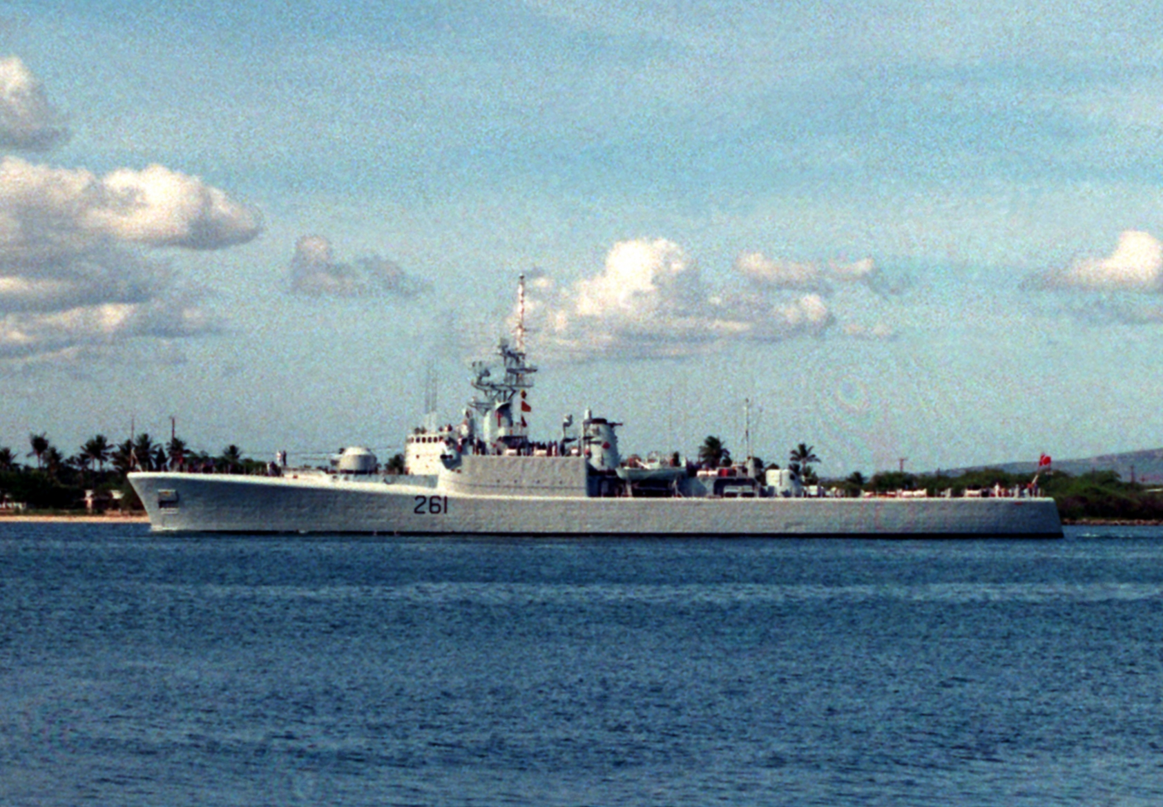 The Royal Canadian Navy frigate HMCS Mackenzie (DDE 261) underway at Pearl Harbor, Hawaii (USA), in 1990.